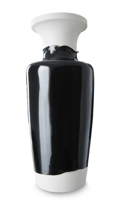 Ming#1 Vase 2005